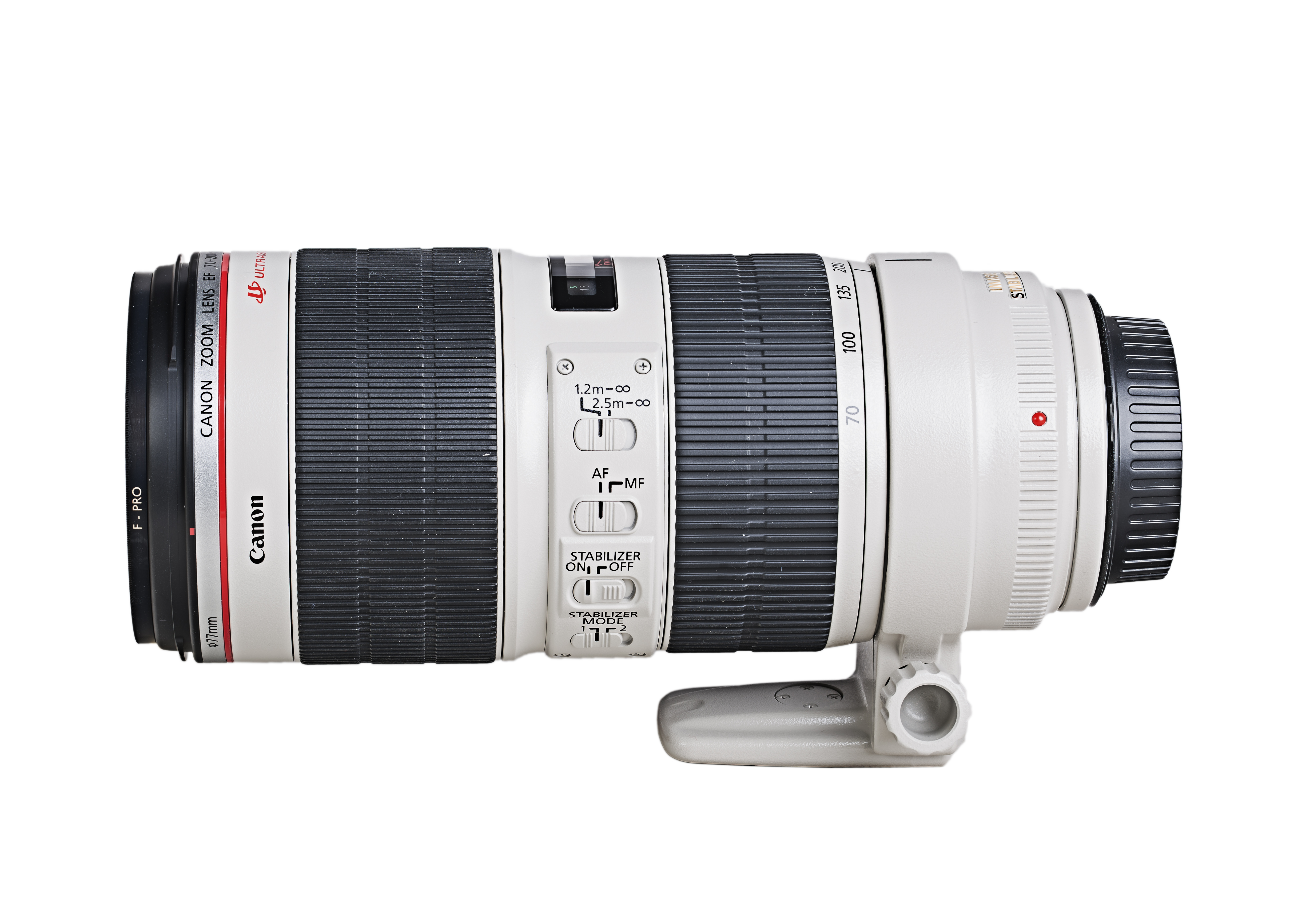 Canon Zoom-Lens EF 70-200 F2.8L IS II USMFocus stacking of 8 pictures.